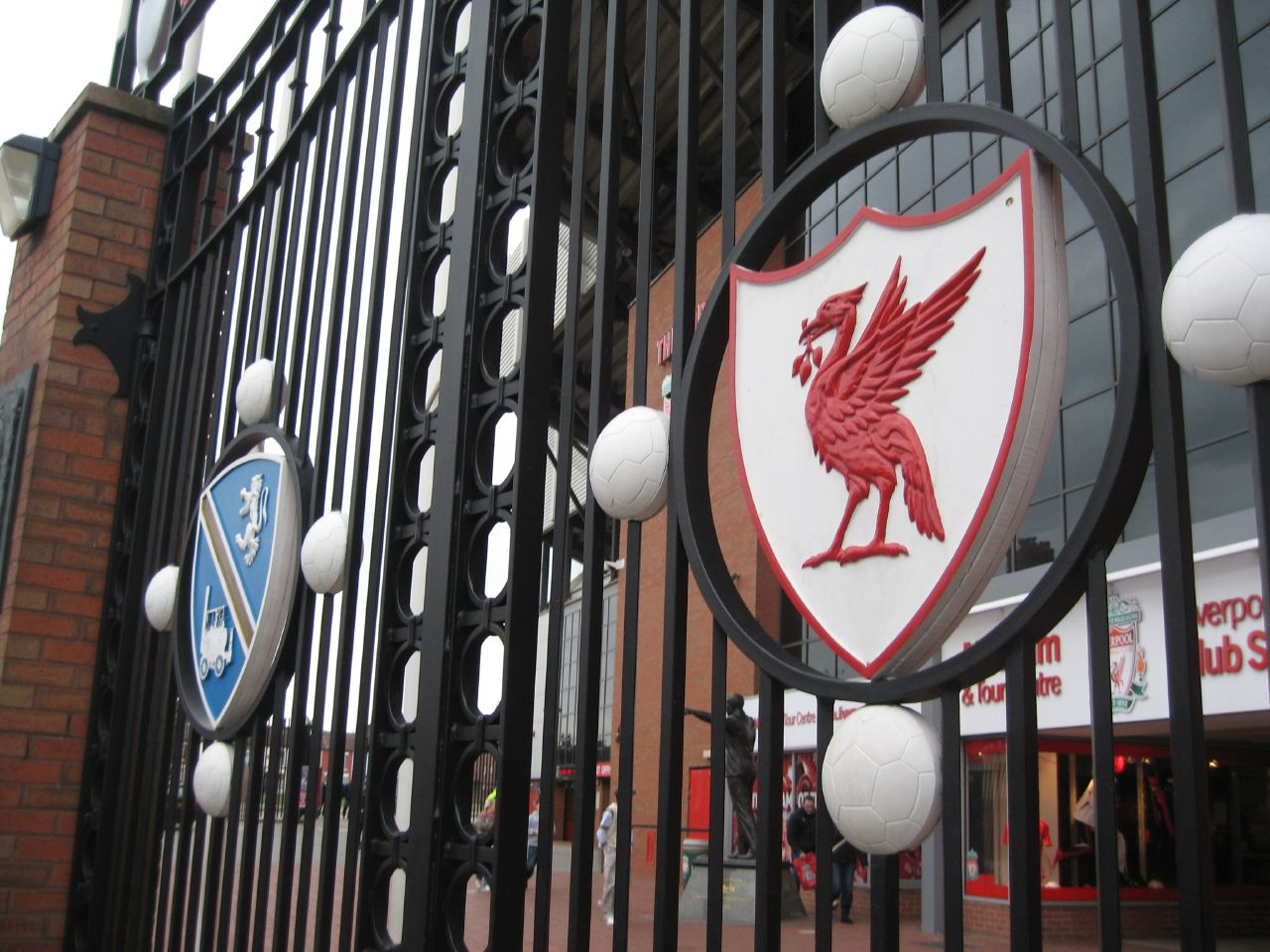 Commemorative Bob Paisley Gateway at Anfield, Liverpool F.C. stadium.